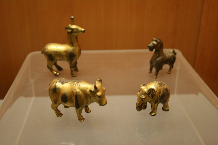 Gilded bronze animal figurines from the Chinese Han Dynasty